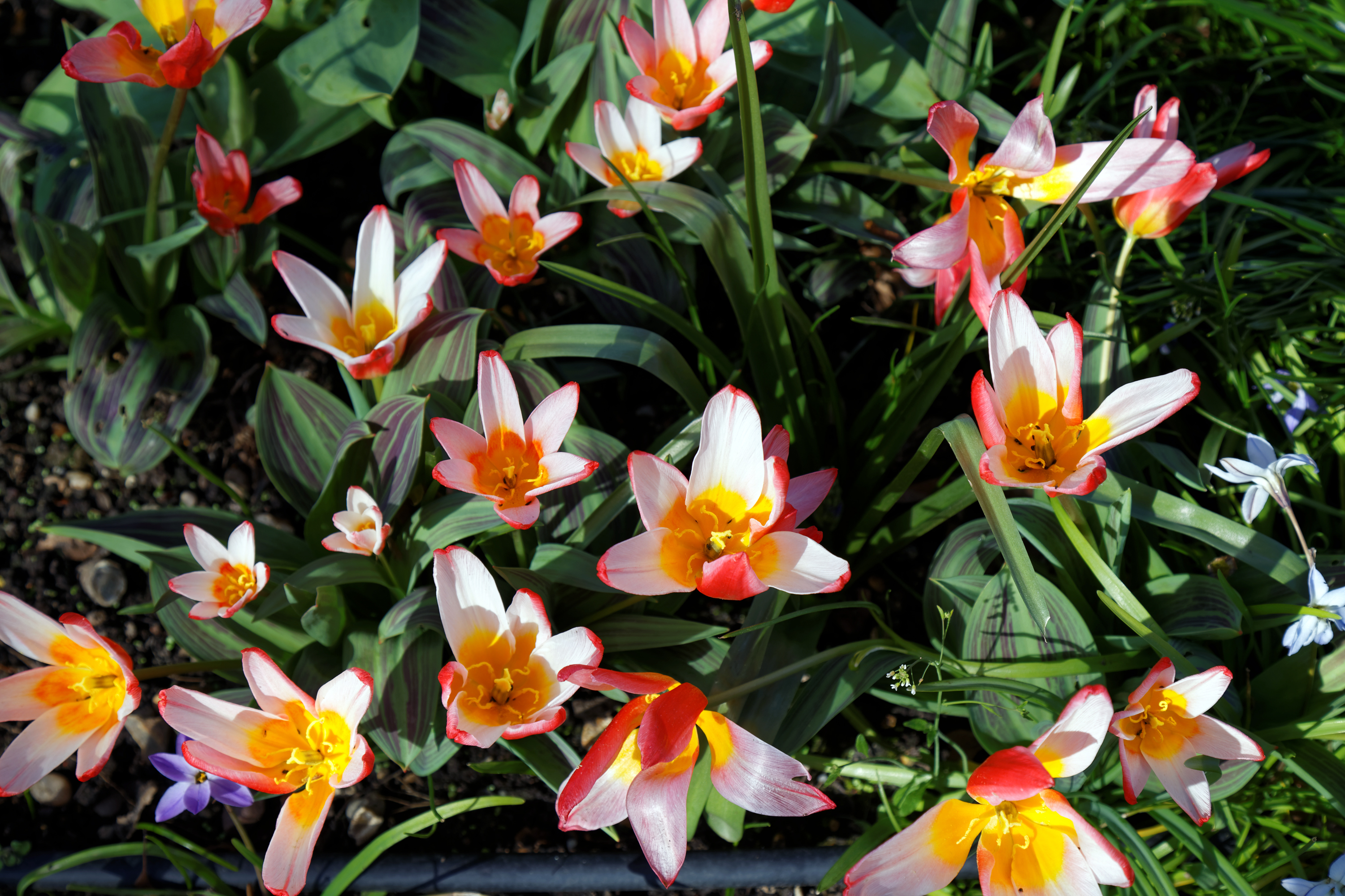 Tulipa kaufmanniana water-lily tulip cultivar, probably 'Hearts Delight', at Capel Manor College and Gardens, Bulls Cross, Enfield, London, England.Camera: Canon EOS 6D with Canon EF 24-105mm F4L IS USM lens.Software: large RAW file lens-corrected, optimized and downsized with DxO OpticsPro 10 Elite, Viewpoint 2, and Adobe Photoshop CS2.